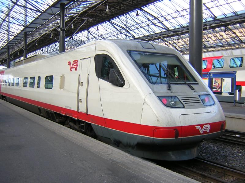 Pendolino at the Helsinki Central railway station in Helsinki, Finland. (Image slightly processed – deleting a person)